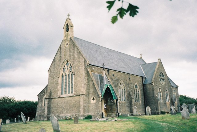 Eype: church of St. Peter